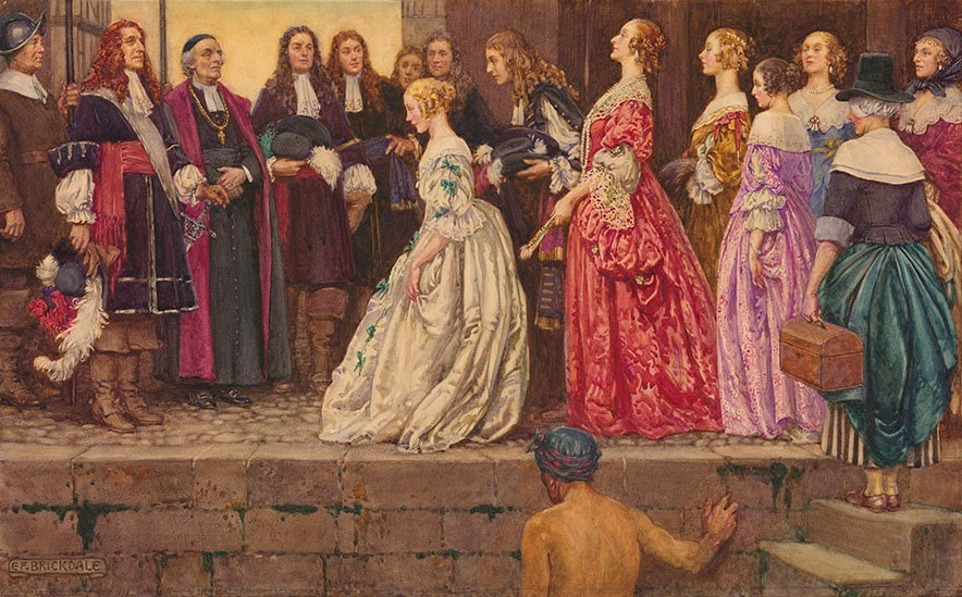 Women coming to Quebec in 1667, in order to be married to the French Canadian farmers. Jean Talon, intendant of New France, and François de Montmorency-Laval, bishop of Quebec, are waiting for the arrival of the women. Copyright has expired according to Library and Archives Canada.